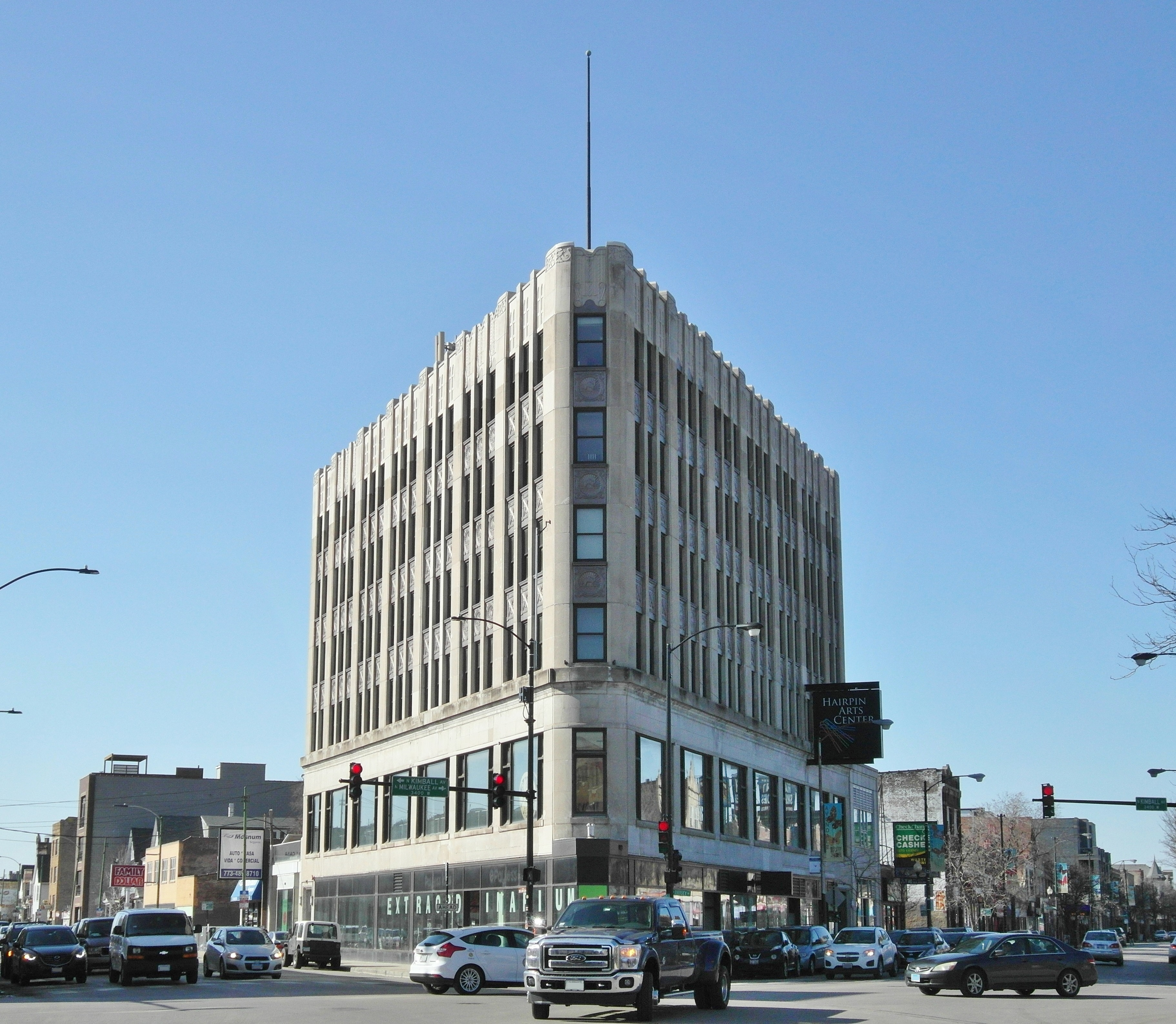 The Morris B. Sachs building at 2800 N. Milwaukee (Milwaukee & Diversey).